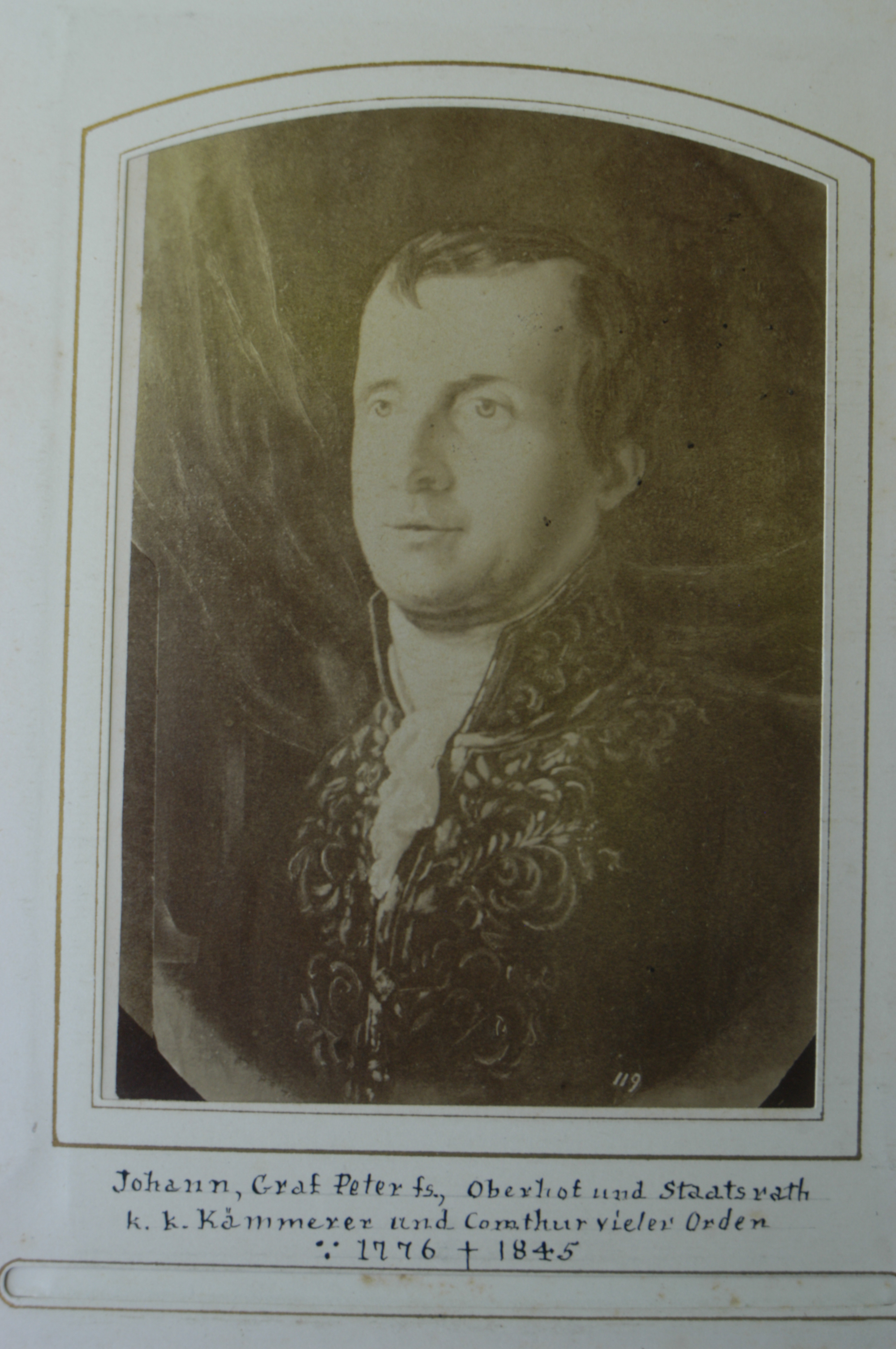 My photo (taken by me, R. de Salis, Rodolph (talk) 10:47, 4 July 2014 (UTC)) of a photo (pre-1884) of a painting of Graf Johann, aka John, Count de Salis-Soglio-Bondo (Chiavenna 1776 - Modena 1855), circa 1815.